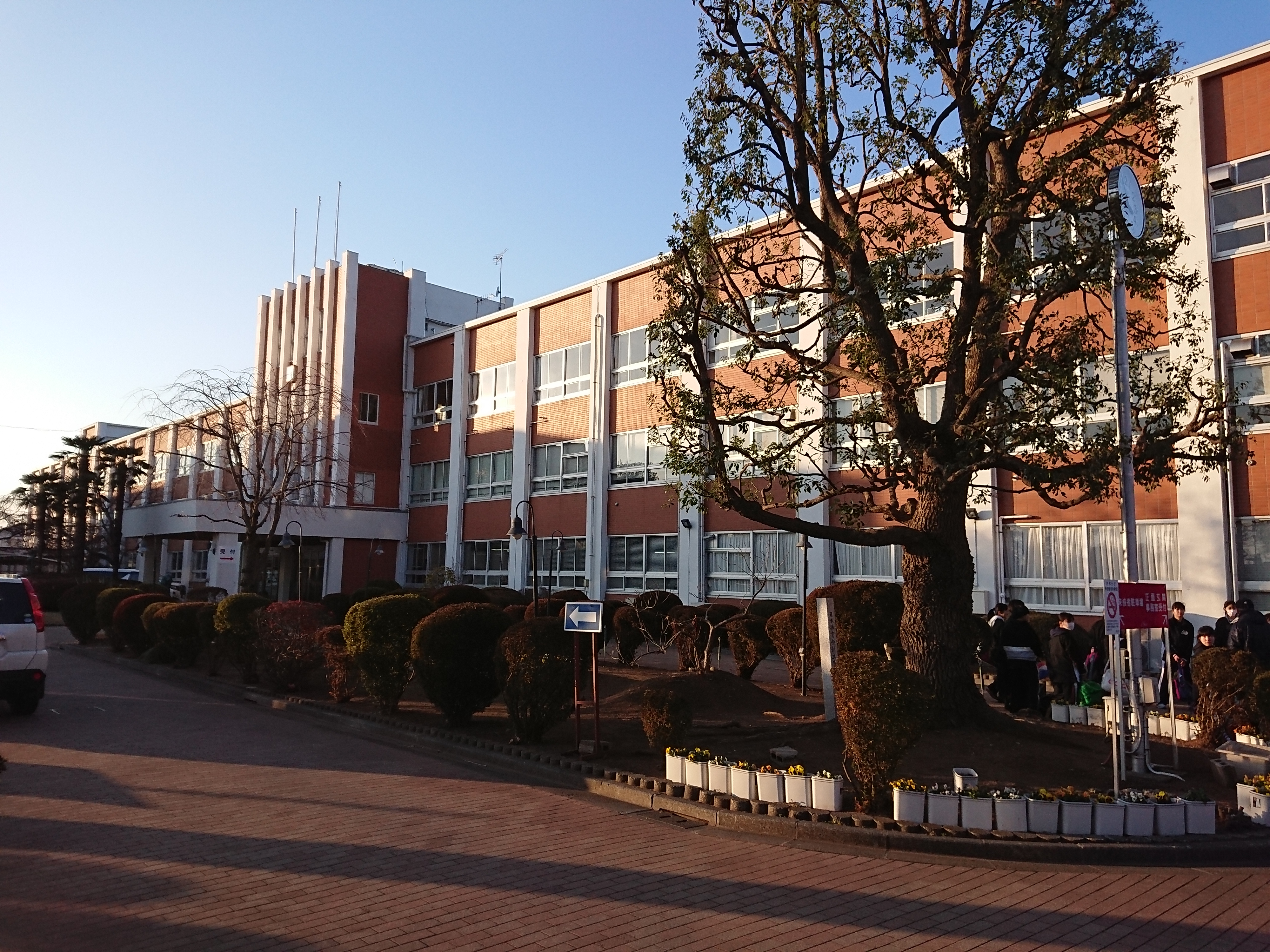 Nittaidai-oka-Girls' high school.